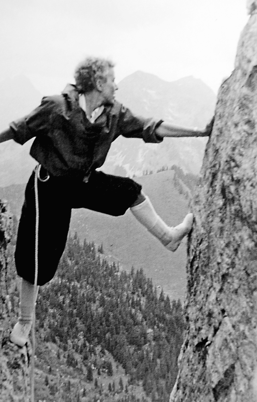 Swiss Climber Betty Favre